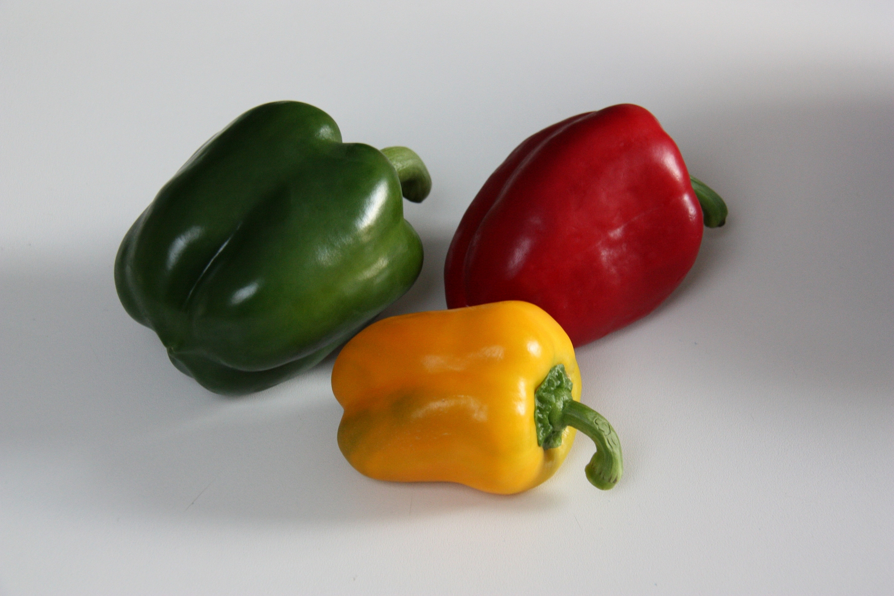 Green, yellow and red bell peppers from the capsicum annuum plant.